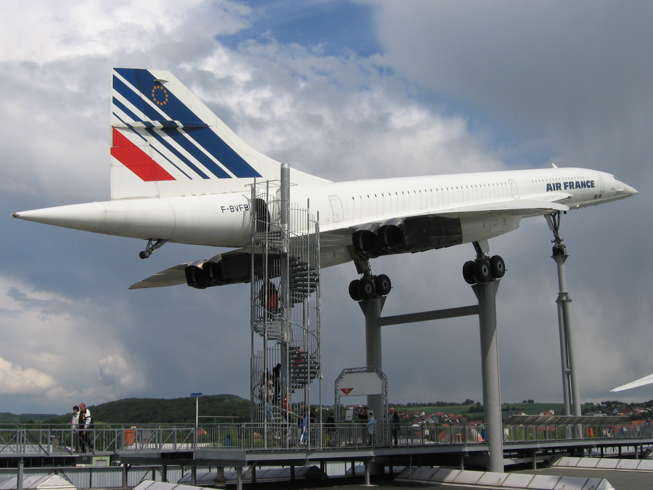 The Air France Concorde F-BVFB on top of the roof of the Auto- und Technikmuseum Sinsheim / Germany. Picture taken in may 2006 by Christian Kath.